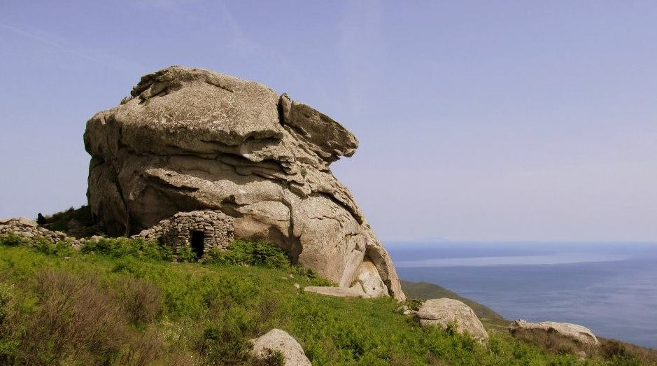 Elba Island stone